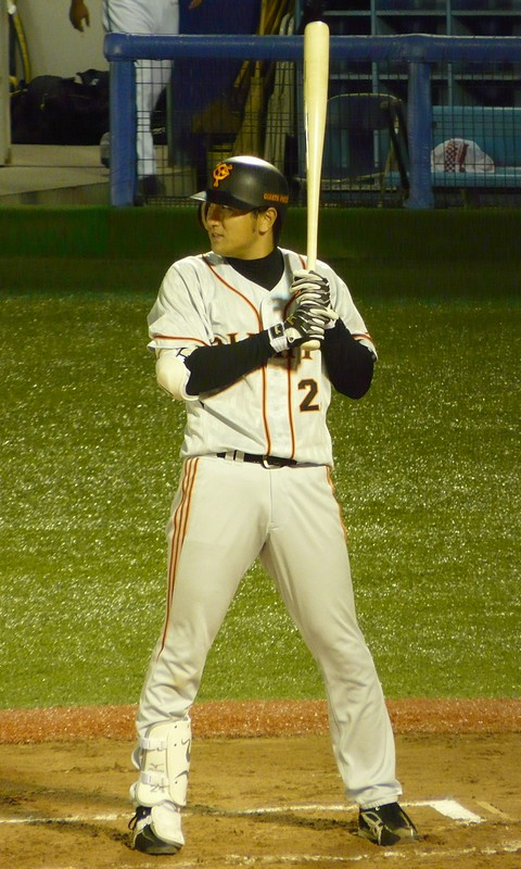 Yoshinobu Takahashi